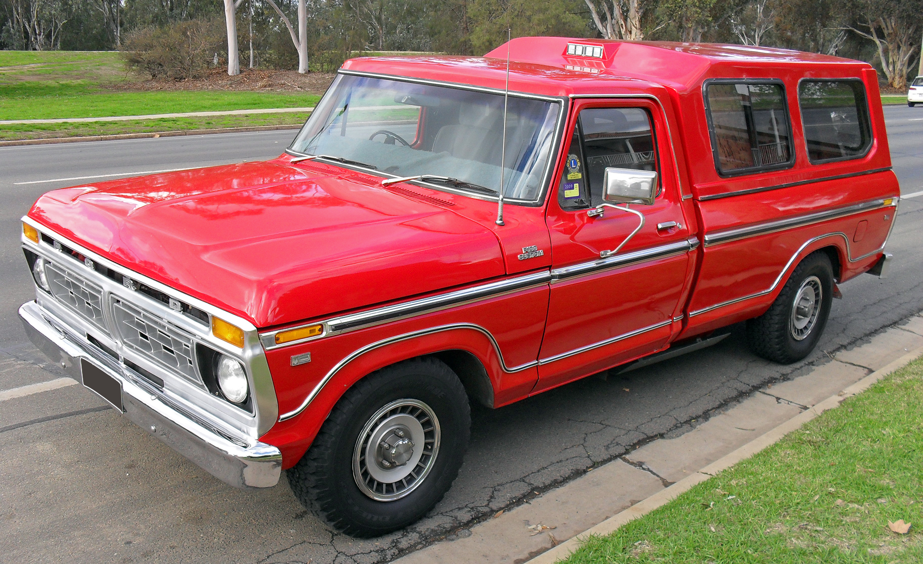 Ford F100 Custom photographed in Australia.